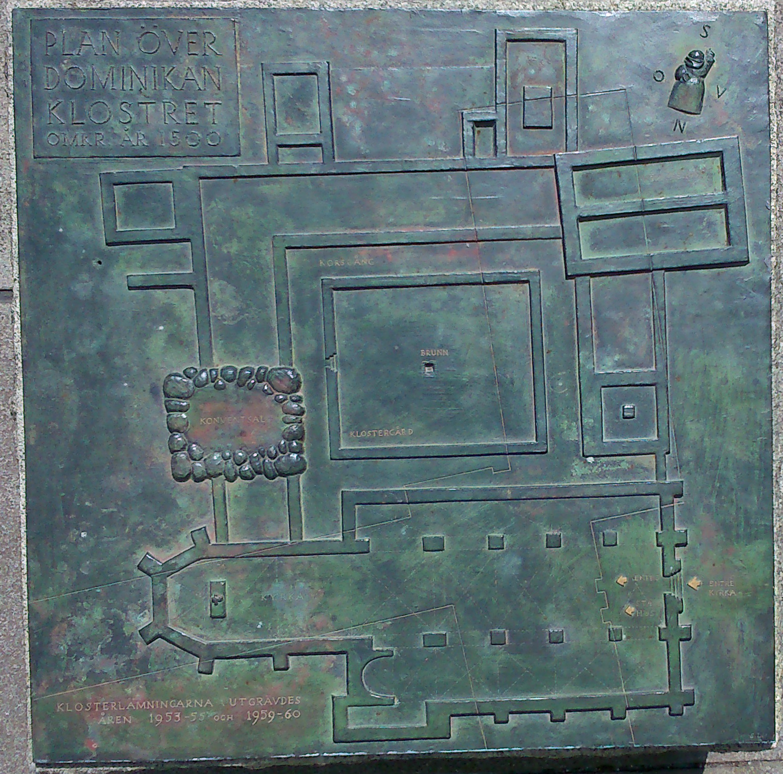 A memory plate on the Dominican Convent in Västerås, Sweden